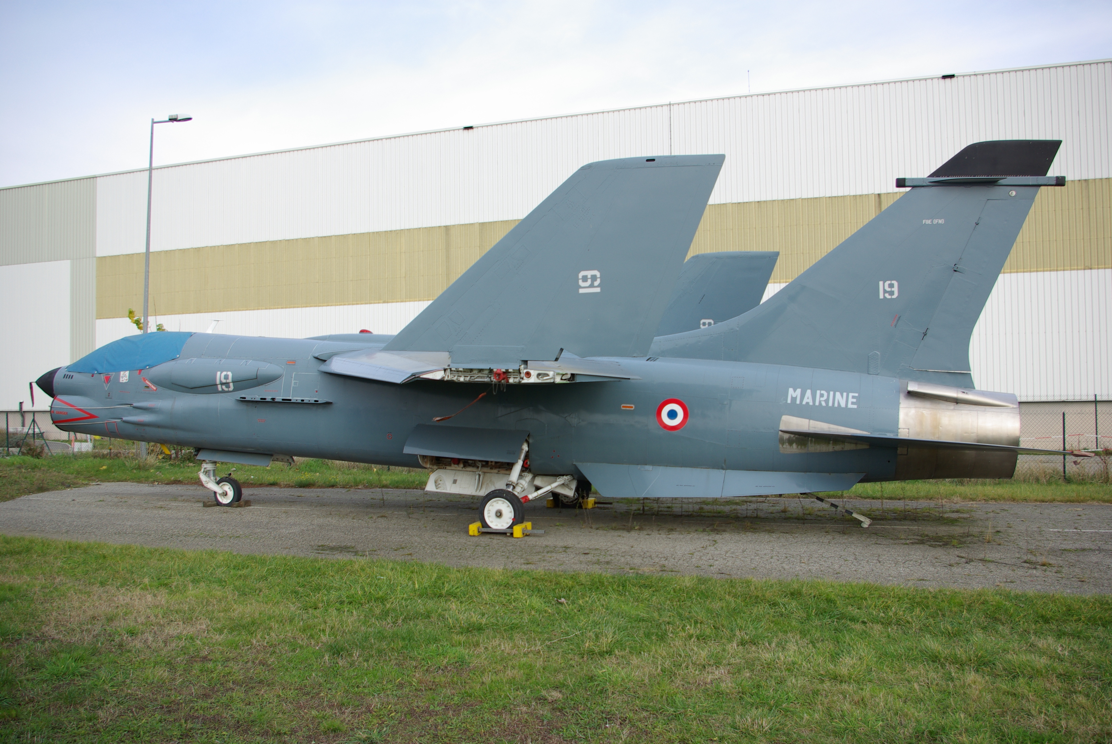 A Vought F-8P Crusader displayed at the musée des ailes anciennes (Toulouse, France)